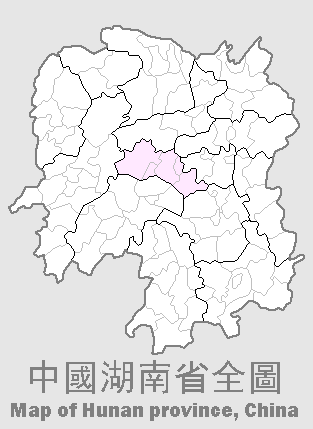 Maps of Hunan Province of China